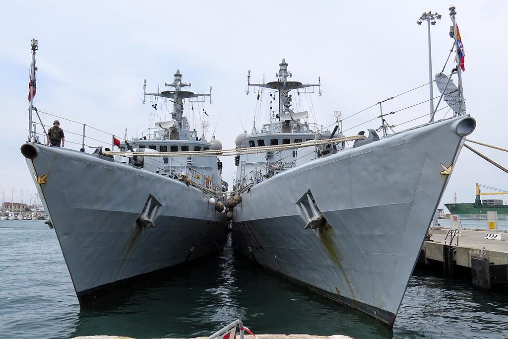 Italian Navy Minerva-class corvettes “Chimera” (F 556) and “Sfinge” (F 554), port of Livorno